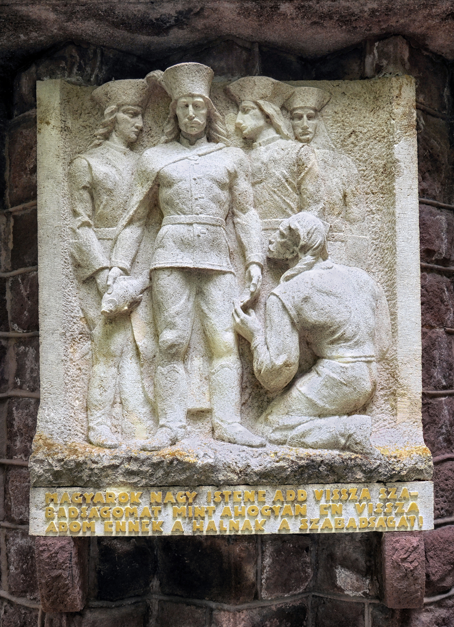 The Rákóczi Memorial in Abda, Hungary